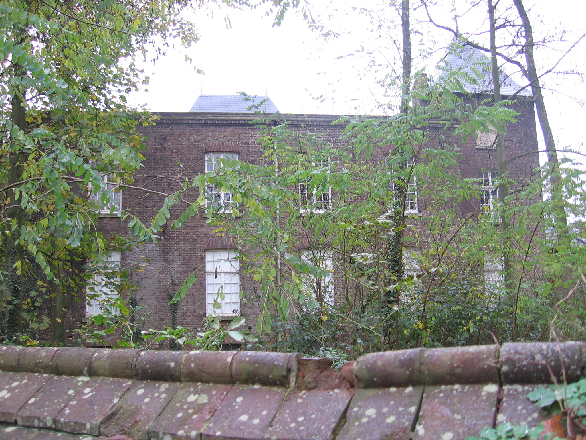 Castle Scheres